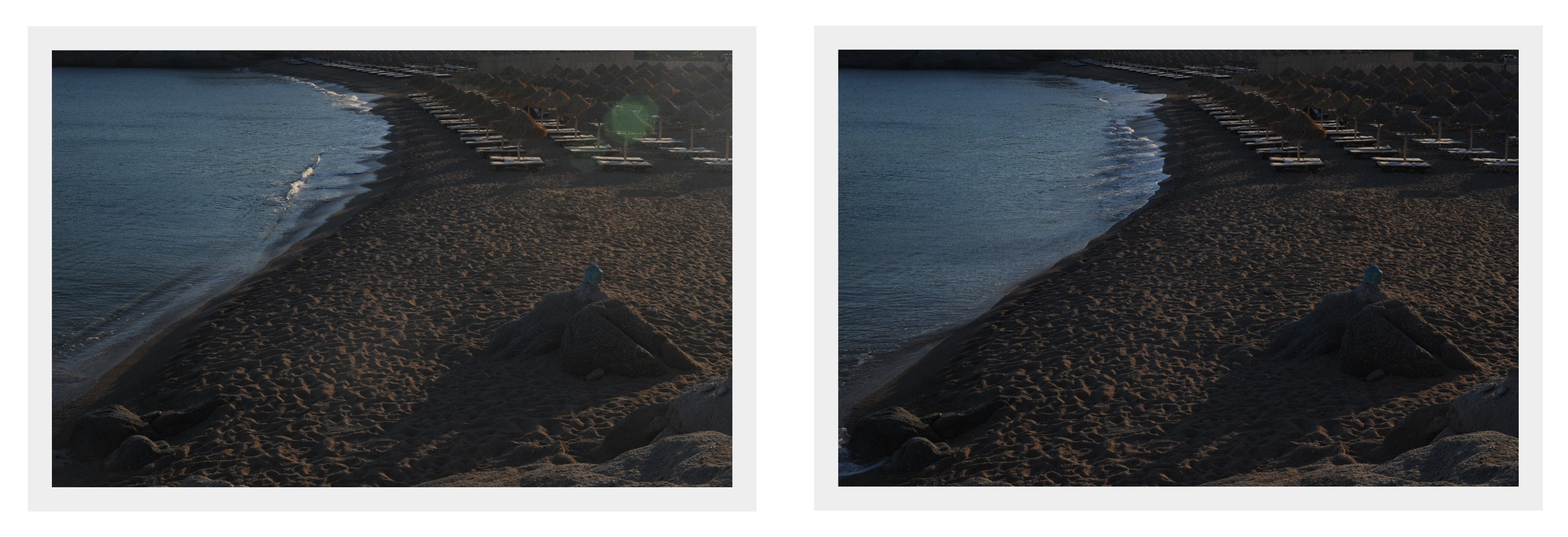 Lens flare - comparison example. Without using the lens hood (effect of lens flare - left image), and using the lens hood (without lens flare - right image). As we compare the two photographs, the lens flare effects the illumination of the whole photograph. Both photographs has the same camera adjustments (in manual mode): Nikon D700, ISO 640, 1/160s, 50mm/f16.